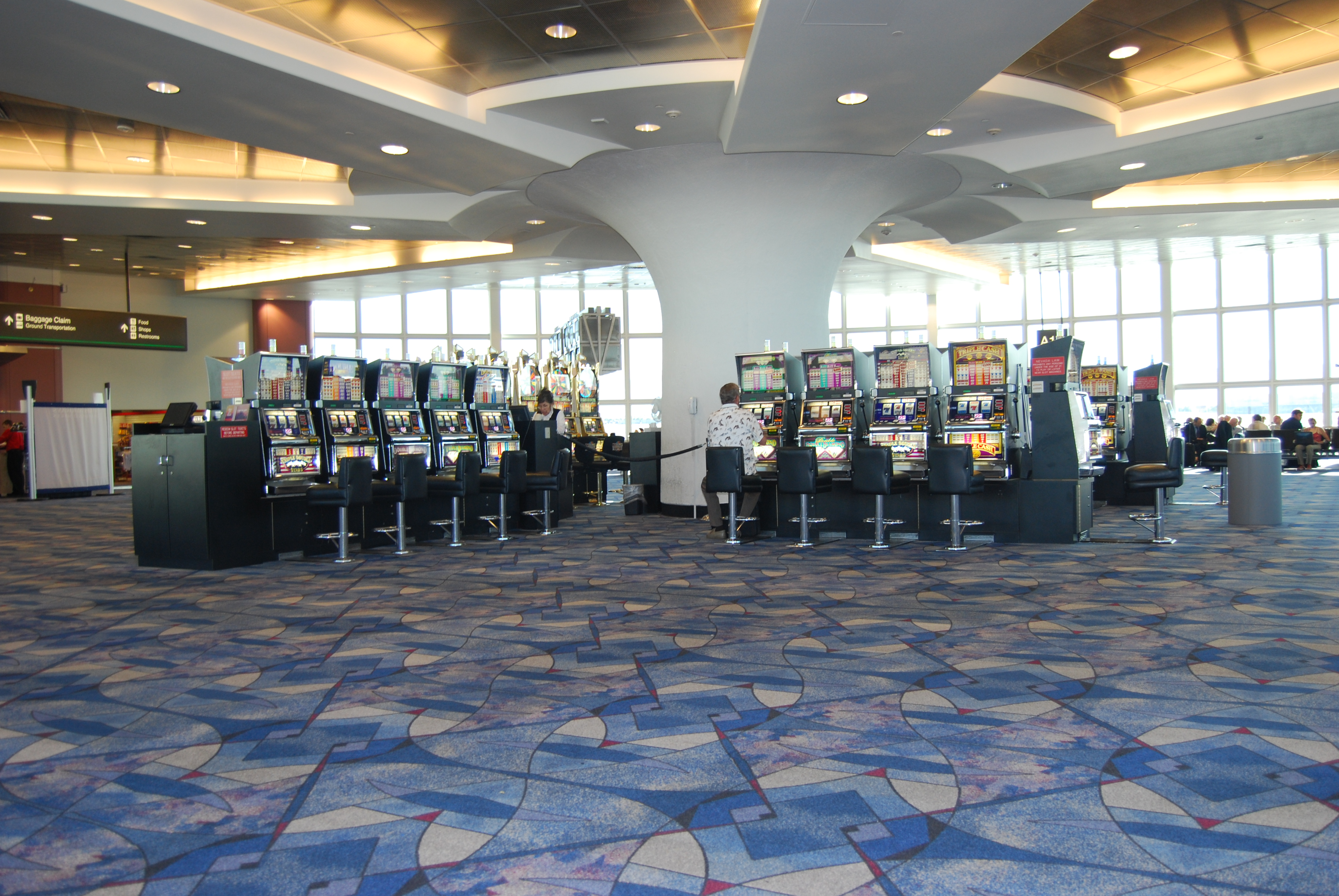 Tempting,especially after US Airways cancels your flight again.